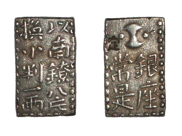 Kansei-nanryo-2shu